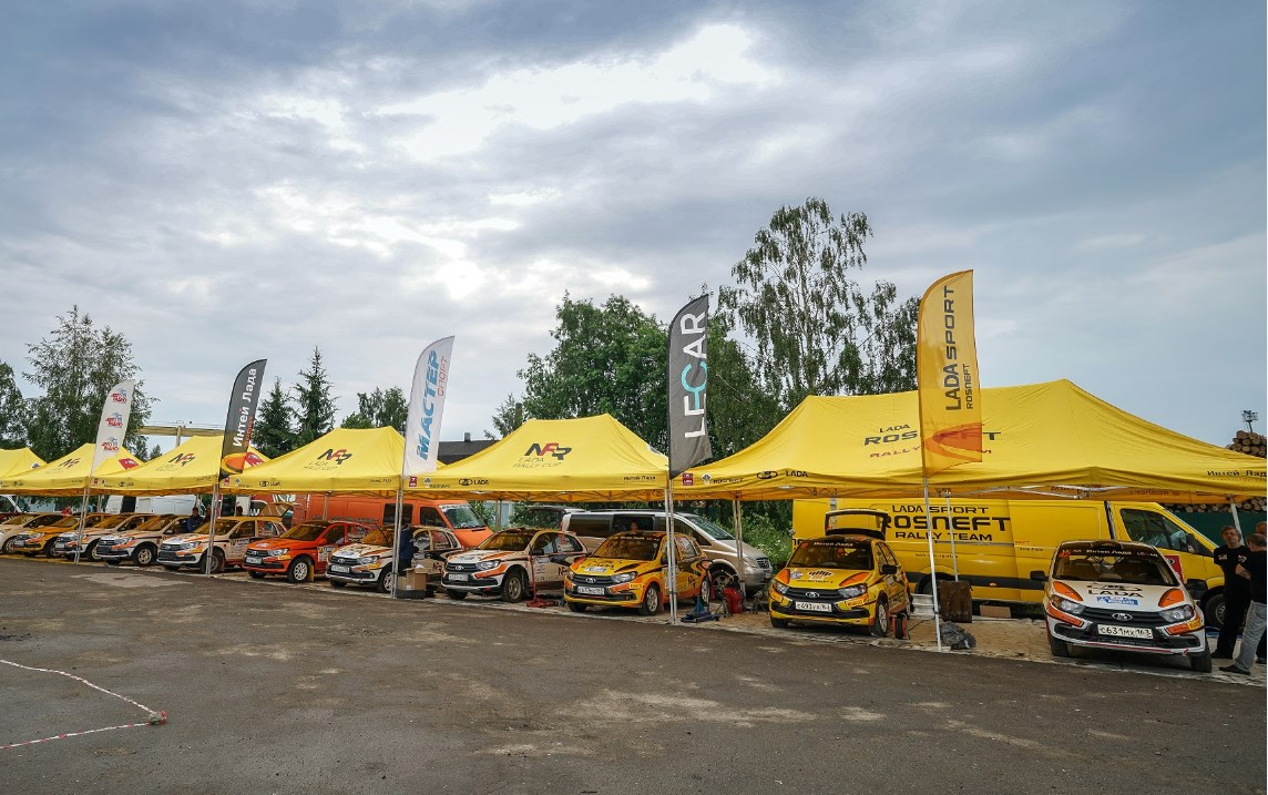 LADA Rally Cup, LADA Granta, White nights 2019, Karelia